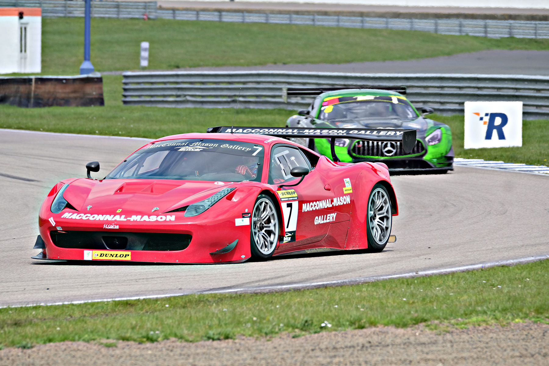 DUNLOP BRIT CAR ENDURANCE CHAMPIONSHIP ROUND 1 ROCKINGHAM PIC SHOWS ROSS WYLIE/FF CORSE/FERRARI 458 GT3